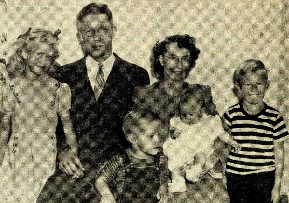 Photo of the family of Bruce R. McConkie (ca. 1946), a member of First Council of the Seventy (1946-1972) and the Quorum of the Twelve Apostles (1972-1985) of The Church of Jesus Christ of Latter-day Saints (LDS Church).